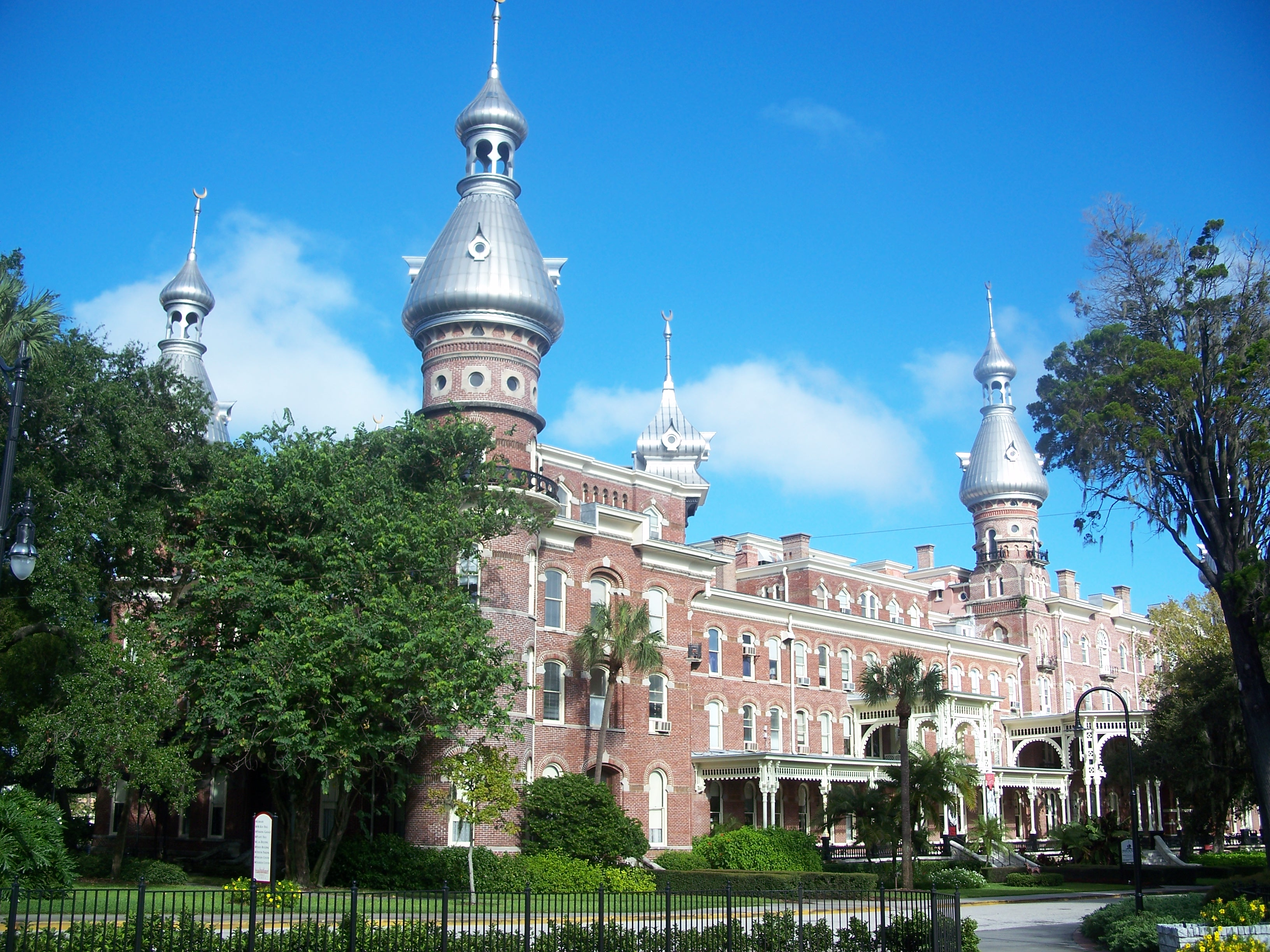 Old Tampa Bay Hotel, a National Historic Landmark, now part of the University of Tampa, in Tampa, Florida